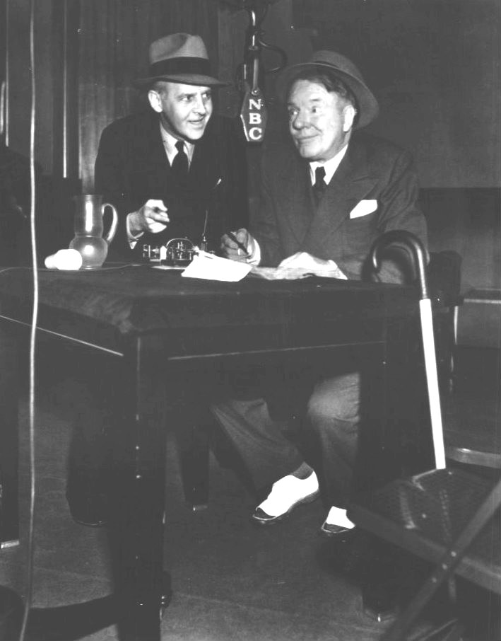 Photo of W.C. Fields and Walter Winchell in an NBC Radio studio. Fields had recently become part of the cast of the radio program The Chase and Sanborn Hour.